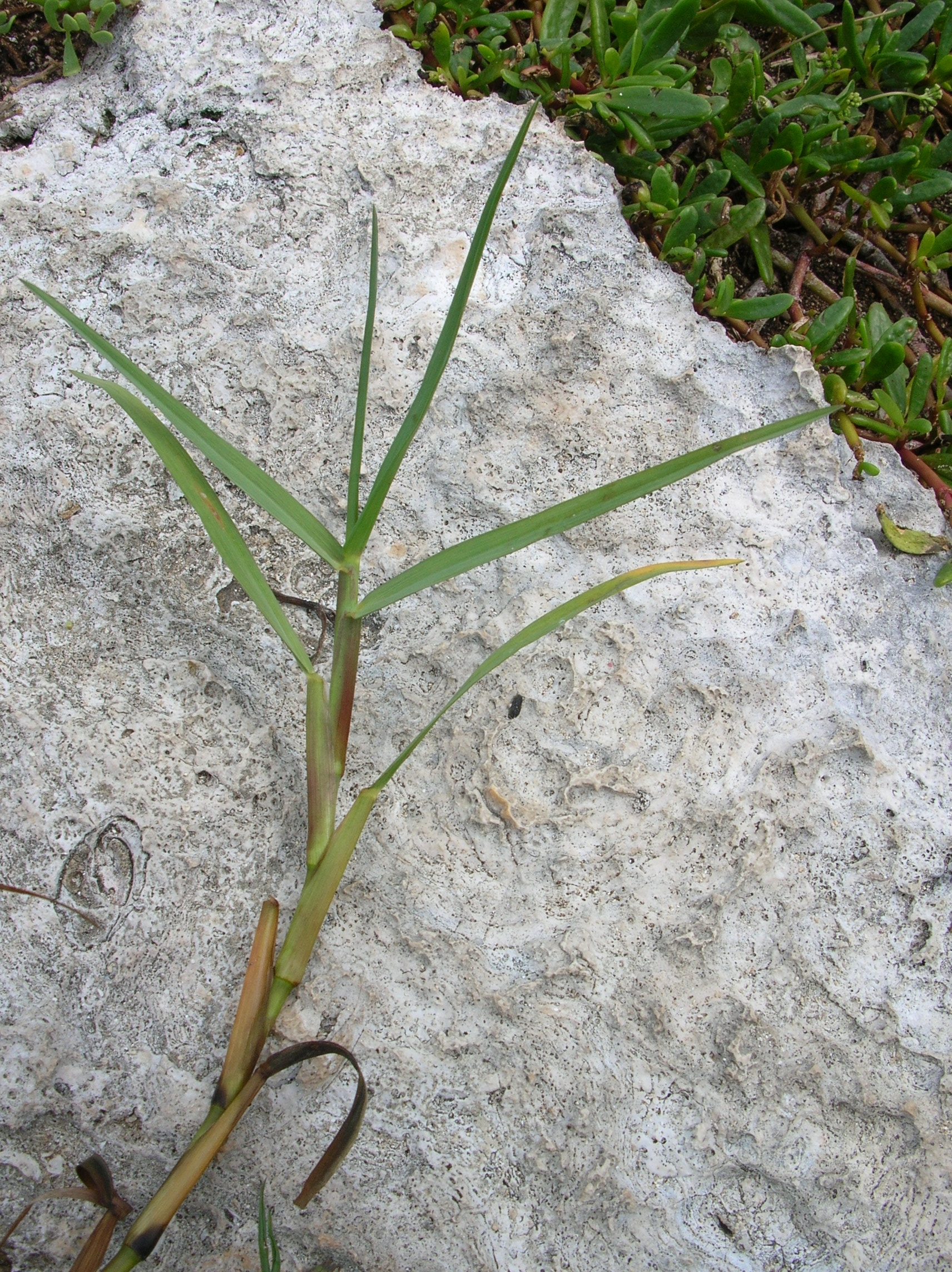 Paspalum vaginatum (habit). Location: Oahu, Popoia